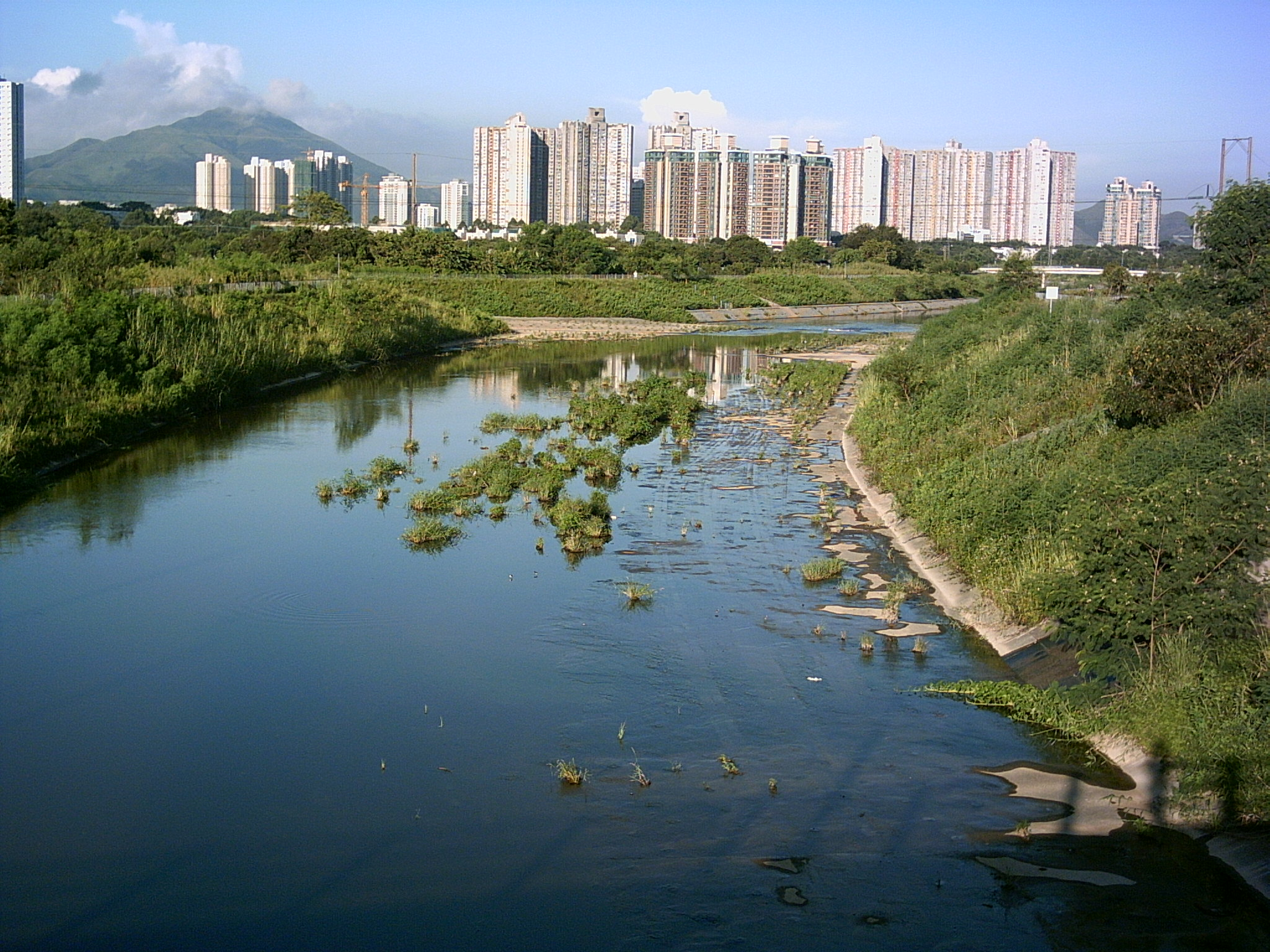 Ng Tung River near Siu Hang Tsuen, looking westwards downstream. Taken by myself in August, 2006.